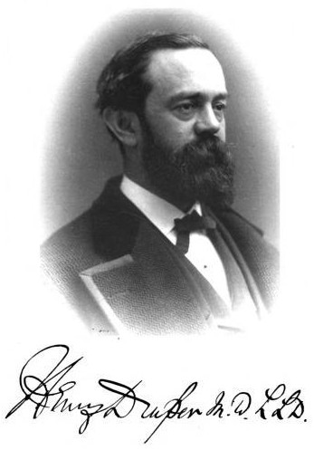 Picture of Henry Draper, the American physician and astronomer